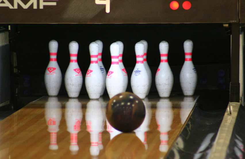 bowling